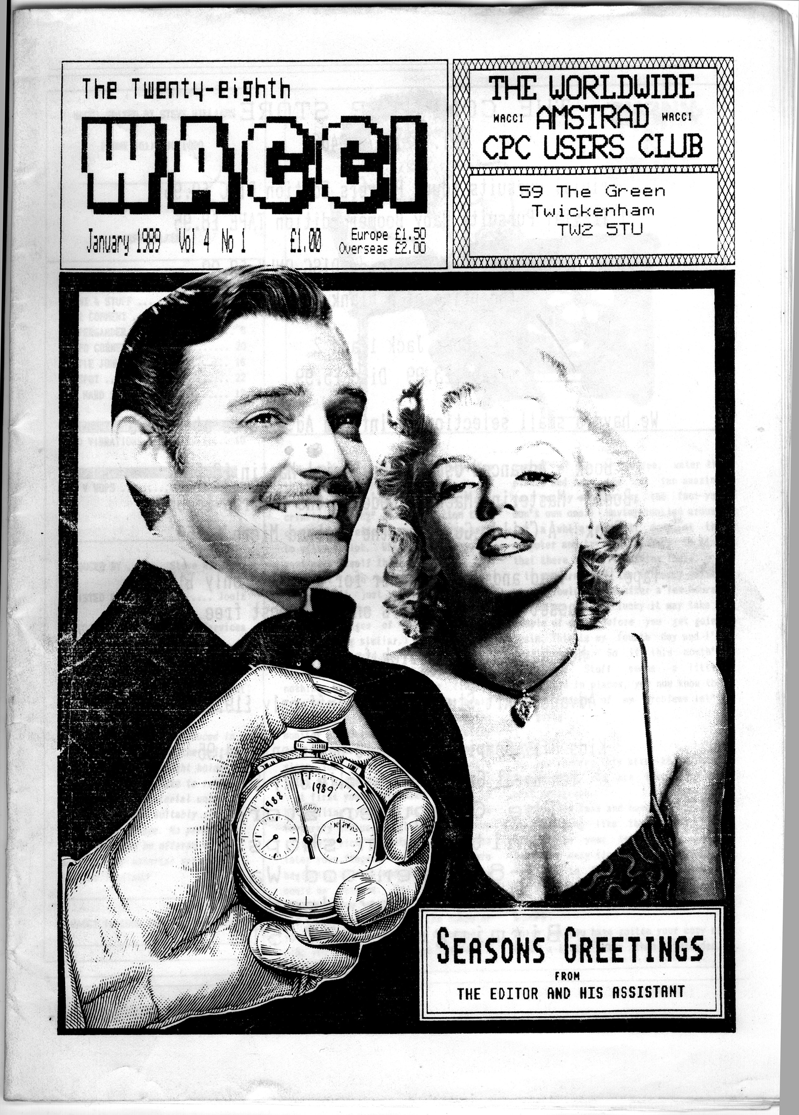 I really love this WACCI cover page. It is the first one that I can look back at without wincing. It was does by the old fashioned "cut and paste" montage method. Yes the whole thing was placed down on to a sheet of A4 and then sent to the printer as "camera-ready" copy. Cummon, you'd have to be pretty dammed stupid to mess up a New Years Eve front cover with Clark Gable, Marilyn Monroe and a stopwatch that showed the time ticking over from 1988 to 1989 wouldn't you? Wouldn't you?? Hang on, who the heck thought of the concept? Yeah nearly 20 years later I can look at this cover and marvel about it. Clark's hair bleeding up over the black picture-border and up into the Logo area? The clean cutting of the original photos onto a white background. Marilyn's left arm overlapping the right border. The sleeve of the hand holding the stopwatch - it shaves the 1cm black border in two. Then of course the stopwatch - normally counting seconds - appears to be counting down the years... Totally bonkers, WACCI Logo, Contact details, two sex gods and a crazy stopwatch all perfectly placed on the page and then the knockout punch - a single headline box "SEASON'S GREETINGS from the Editor And His Assistant" Dear Lordy Lordy this was a GOOD cover. We had miles of fun with it Our monthly post-bag trebled. People who knew me wrote in to say "How dare you have the audacity to use Mr. Gable's image as your own - you ugly person BUT people bought in to the deliberate lie and assumed that the ensuing falsehood was true. Joolz was the Letters Editor at that time - not the Editor's Assistant. Readers (I can't say mistakenly because I planned it) somehow began to associate the image of MM with Joolz... and there began a whole other set of problems that computer magazine editors don't normally have to deal with. O.K. This was my sole creation and I now release it out into the public domain. Just give me some of mention in the small print eh? Steve Williams 2006